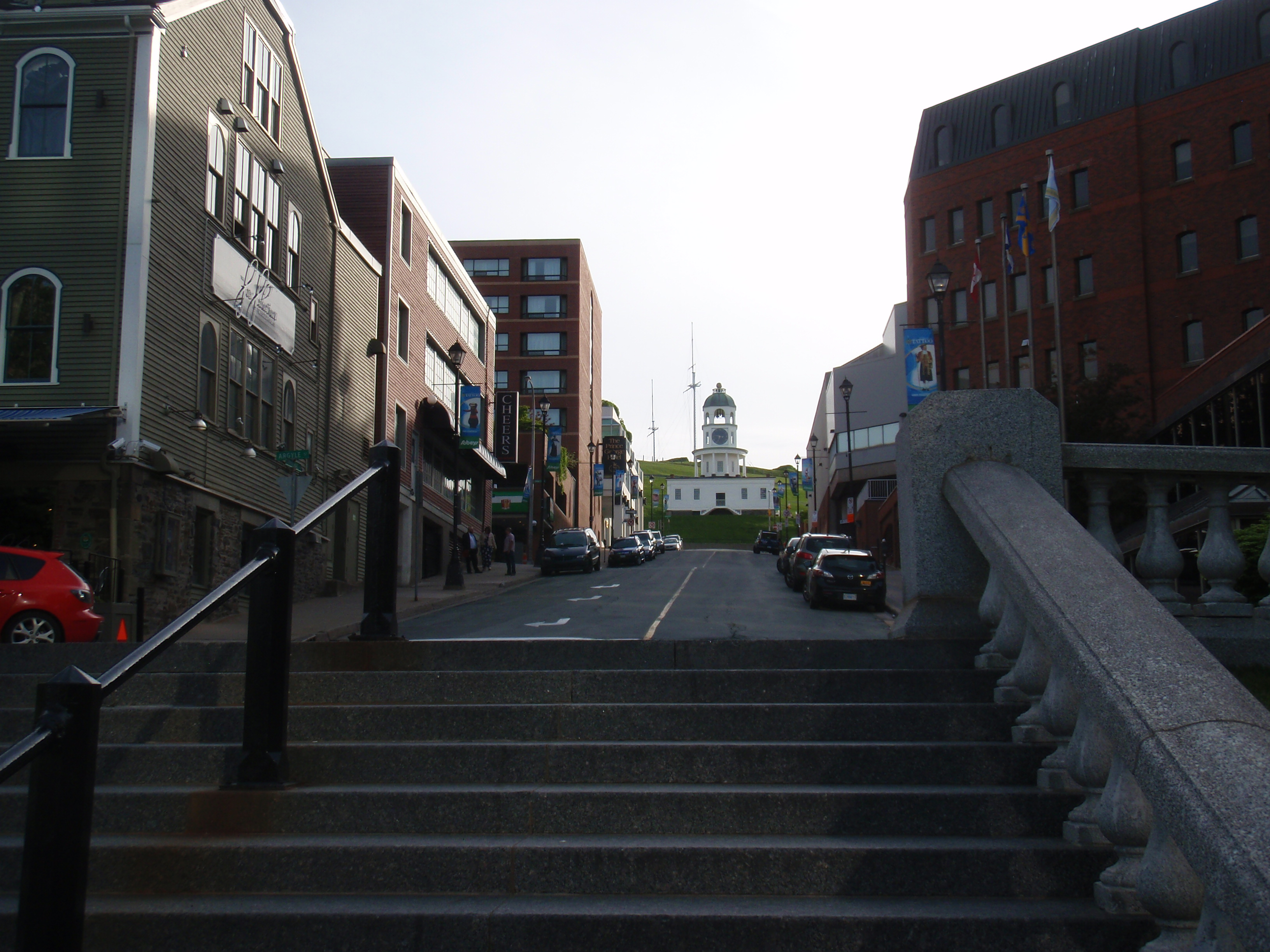 Looking up Carmichael Street to the Clock from the Grand Parade, 2014